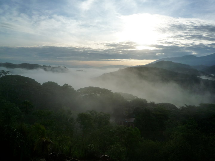 Overlooking Carara National Park Tarcoles Costa Rica